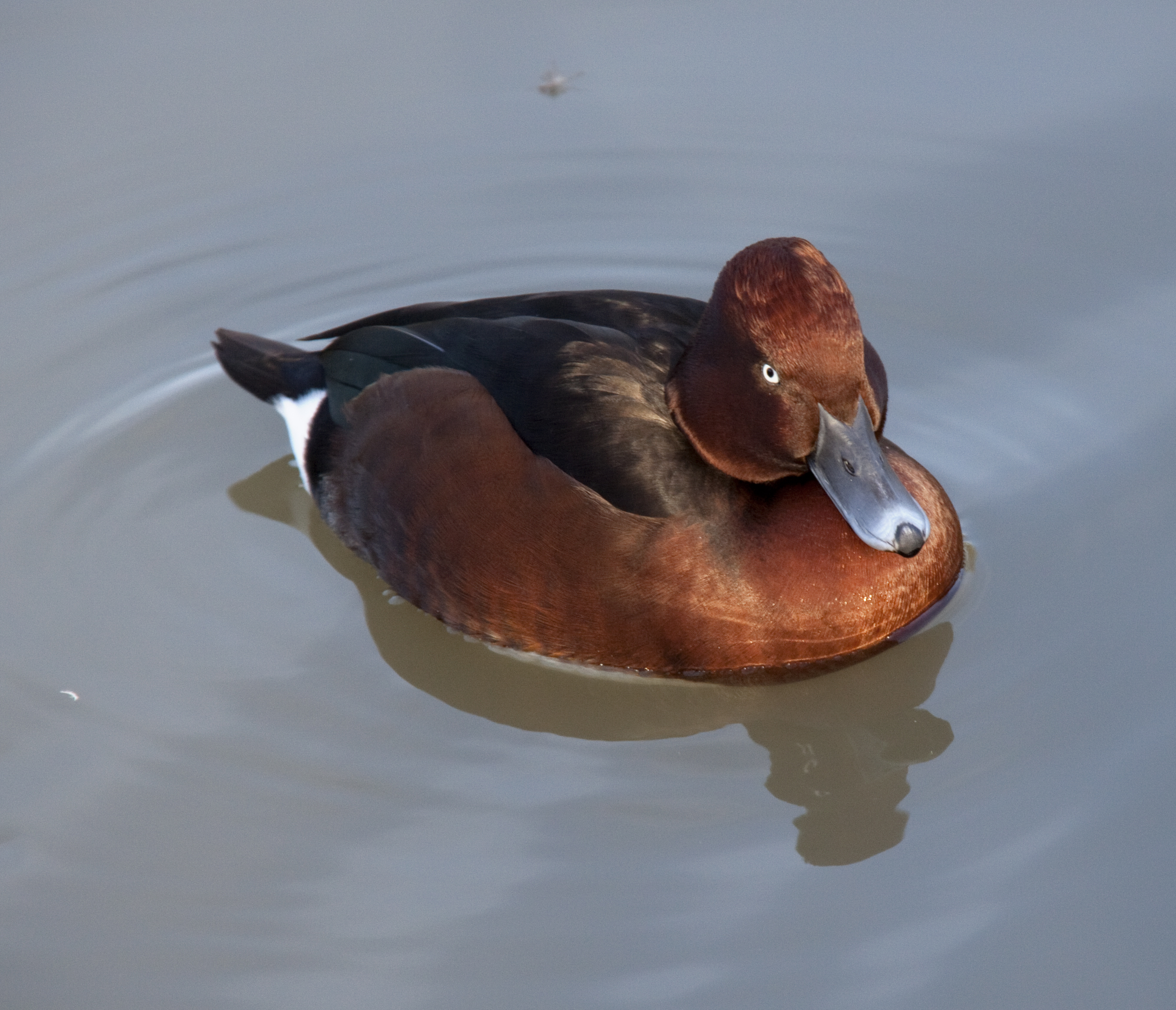 Ferruginous Duck Aythya nyroca, Slimbridge WWT